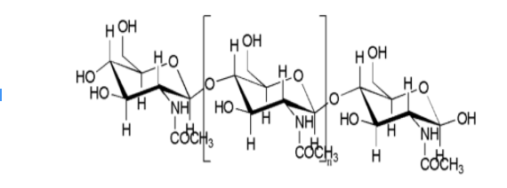 Structure of Chitin